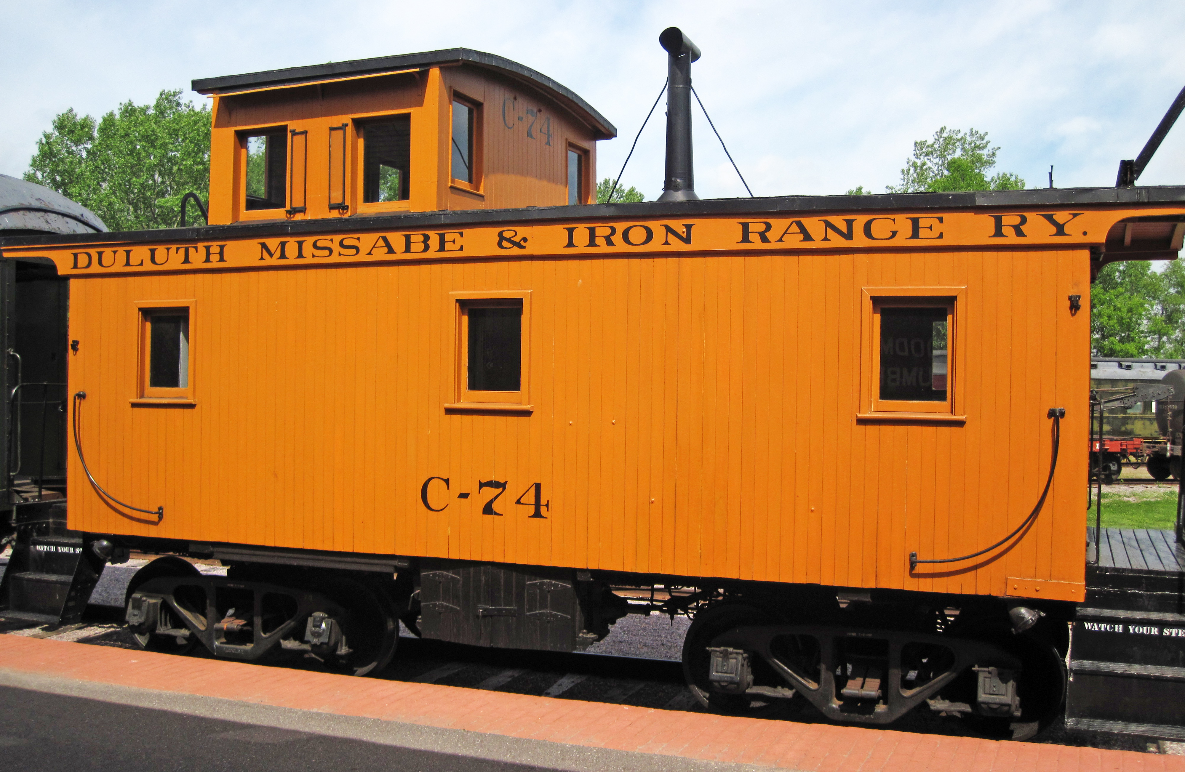 This caboose was built in 1924 by the Duluth, Minnesota & Northern Railroad and became a Duluth, Missabe & Iron Range Railway caboose in 1938. It was the rear-end car of numerous trains that shipped iron ore from northern Minnesota's Mesabi Range until 1965. The iron ore was initially high-grade hematite in the Biwabik Iron-Formation (1.85 to 1.93 billion years old). After that was depleted, taconite in the same stratigraphic unit became the principal mining target. This caboose is now part of the Mid-Continent Railway Museum collection in the town of North Freedom, Wisconsin. More info.